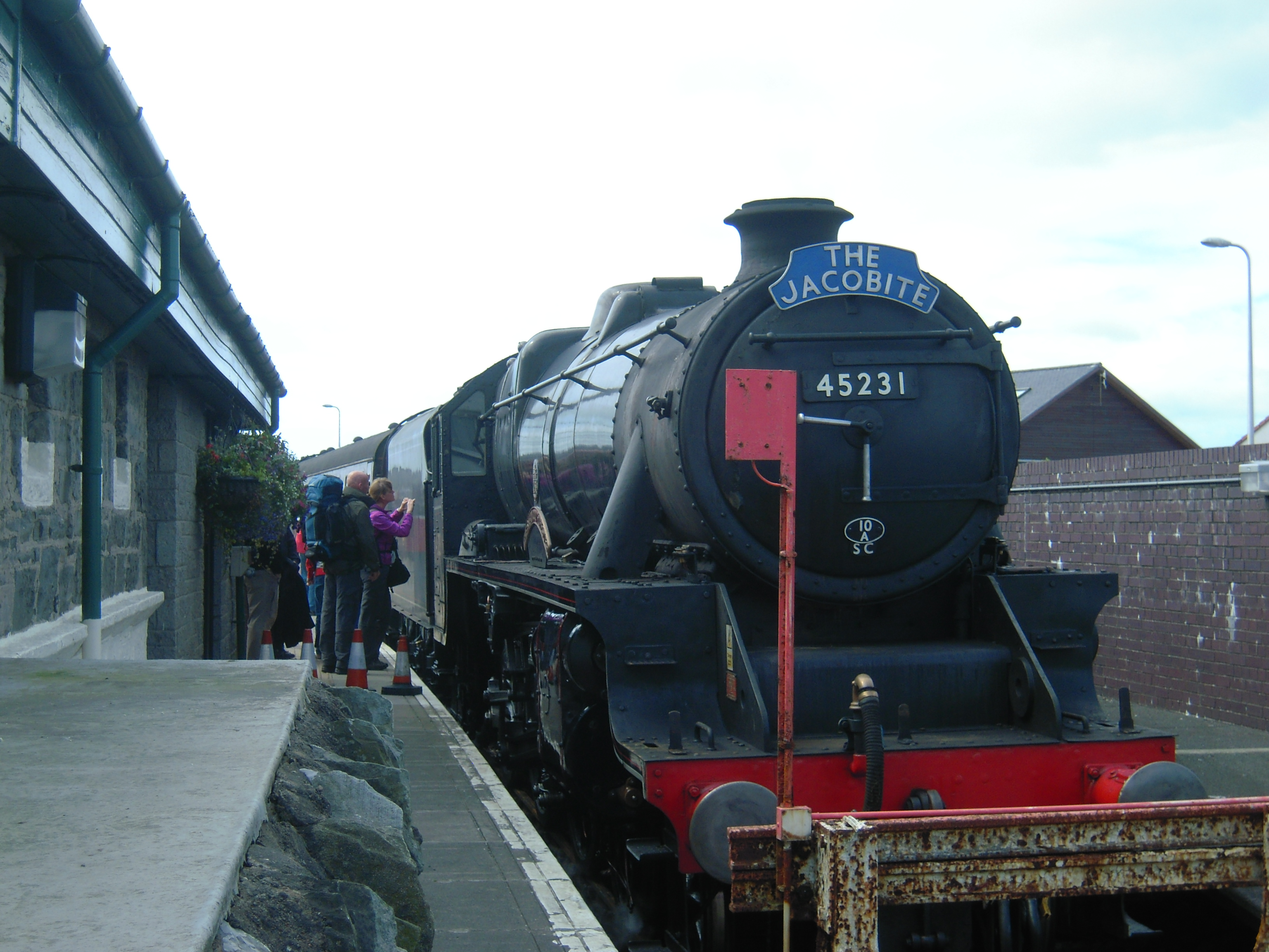 The Jacobite.